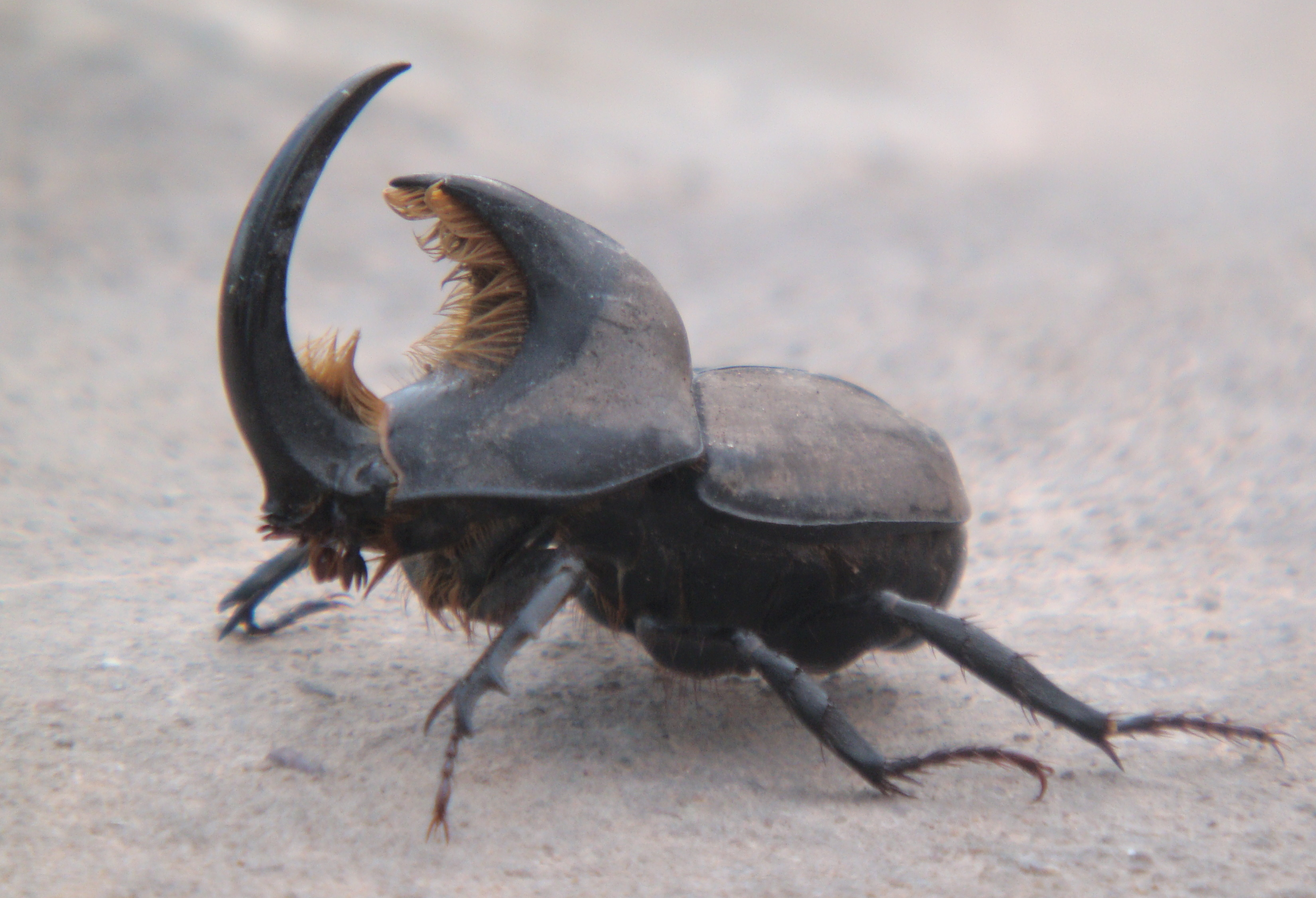 Diloboderus abderus is a beetle placed in the Coleoptera order and Melolonthidae Dynastinae family. The beetle in the picture has a horn which indicates it is a male.